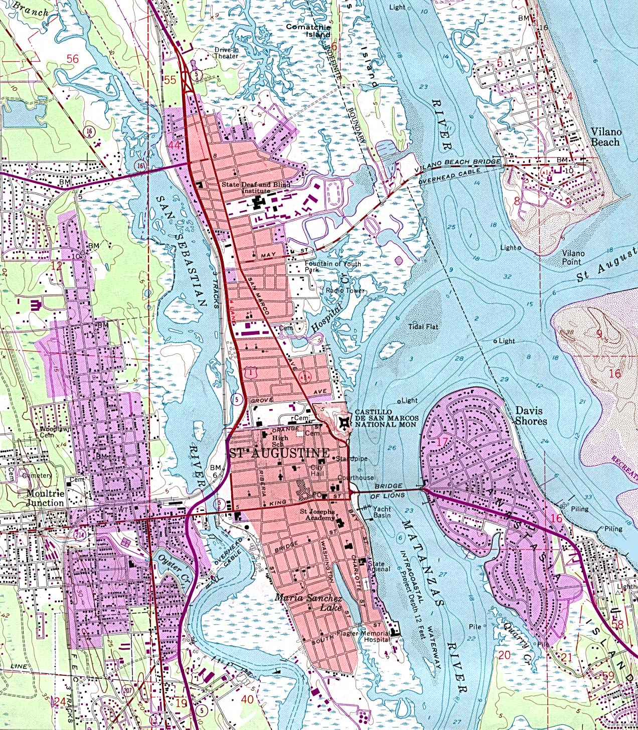 United States Geographical Survey map of St. Augustine, Florida and vicinity.